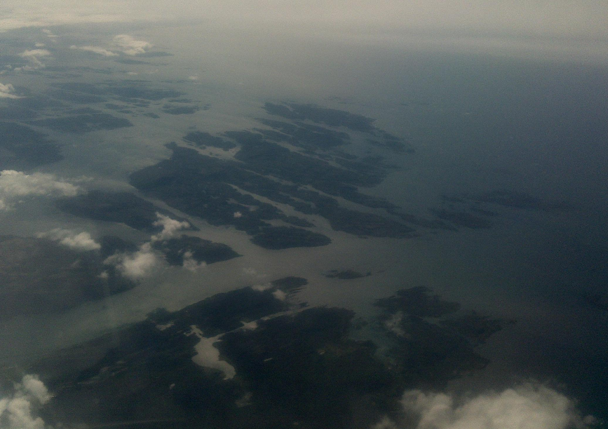 Solund in county of Sogn & Fjordane, western Norway. On the left is the western outlet of the Sogne Fjord (Sognefjorden).